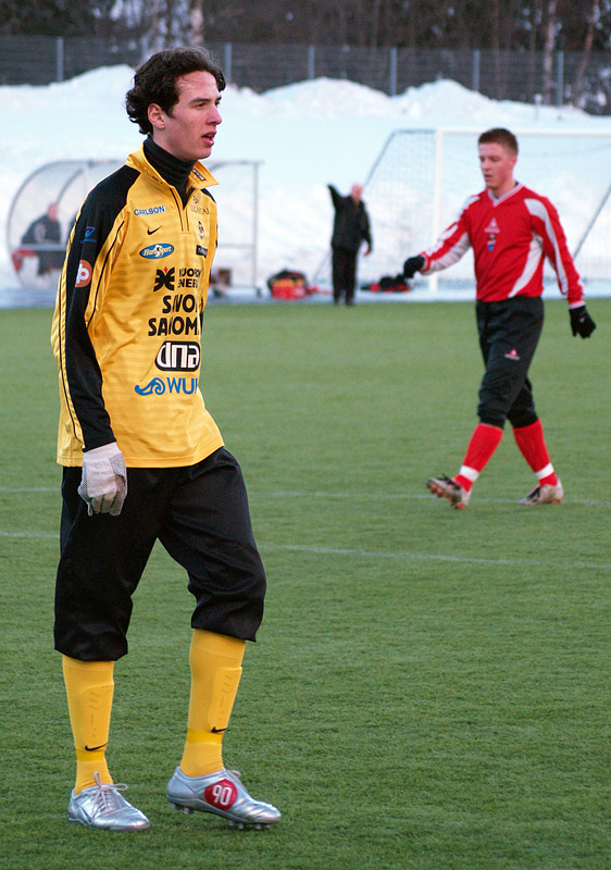 Finnish football player Berat Sadik, who currently plays for FC Lahti (was playing for KuPS in this picture). Nike Cup in Kuopio. KuPS of Kuopio (yellow) vs. TP-47 of Tornio (red) Date 24. march 2005. Own work.